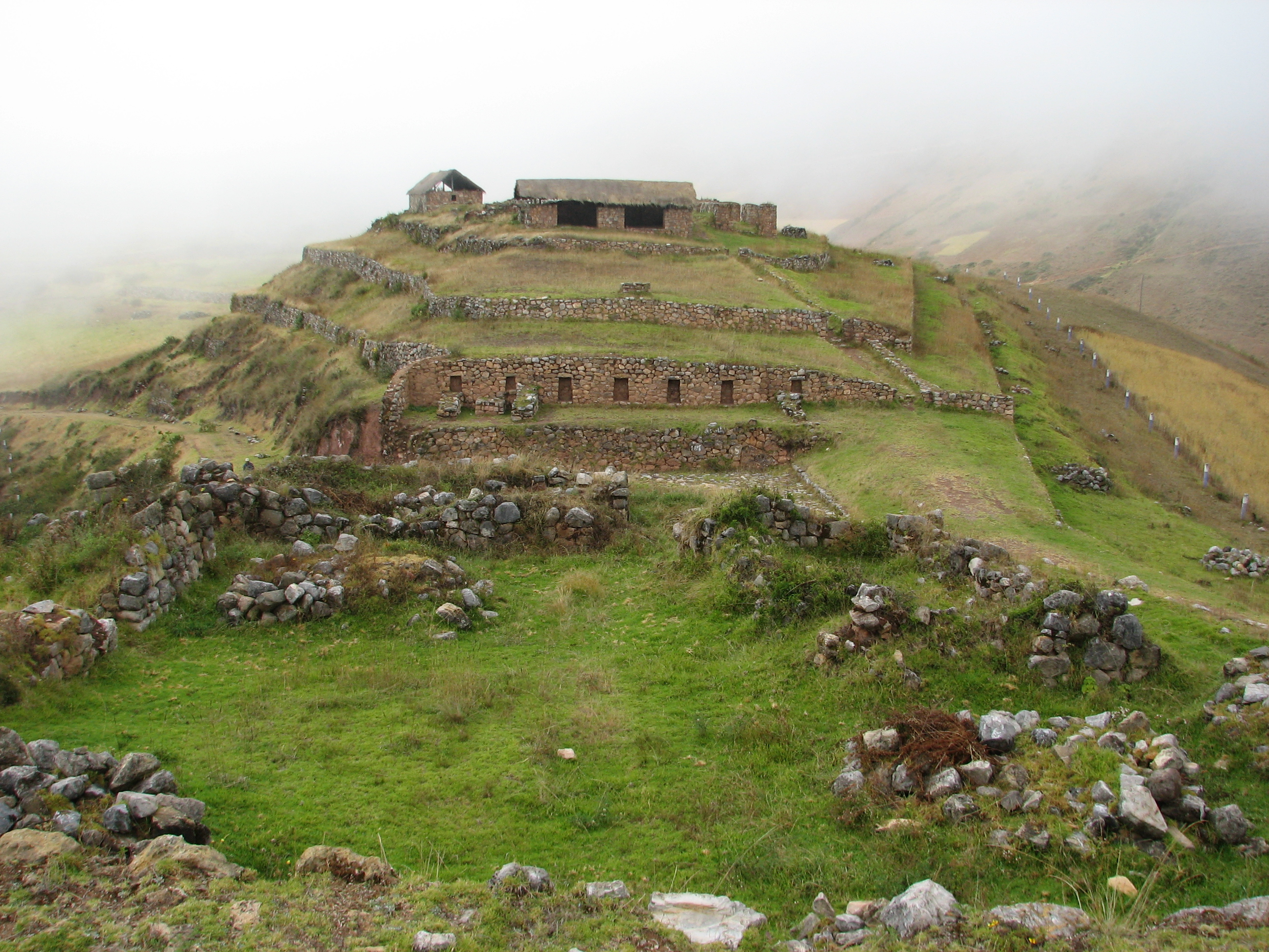 Sondor Archaeological site (overview)